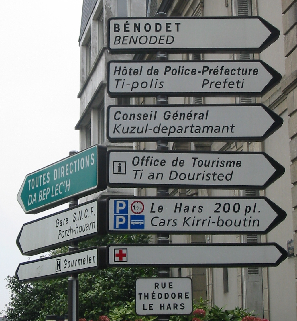 Directional road signs, bilingual in French and Breton, in the city of Kemper (Quimper) in Brittany